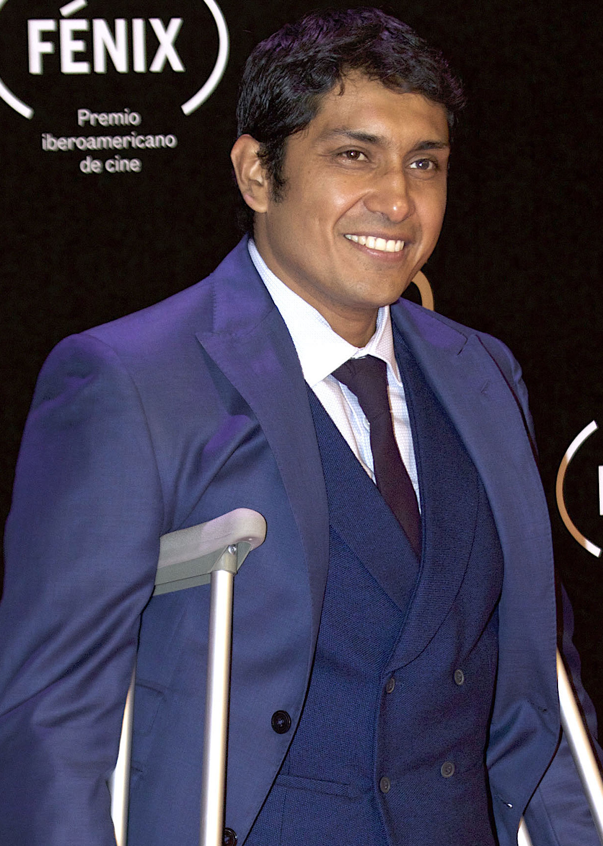 Tenoch Huerta on the red carpet of Fenix Awards 2018. 7, November, 2018. Mexico City. Picture by Milton Martinez / Secretaria de Cultura CDMX.